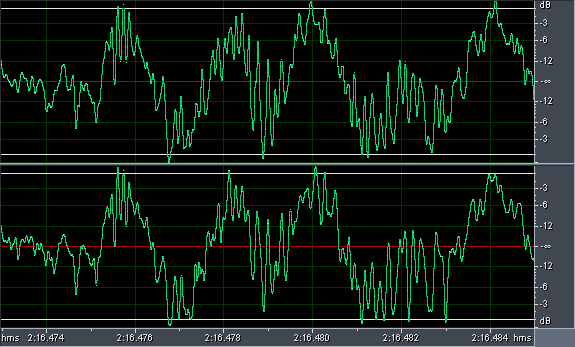 Image of a snare drum transient from "Cliff of Dover" by Eric Johnson (Ah Via Musicom, 1990), processed with the Waves L2 Ultramaximizer limiter using Adobe Audition to boost the audio by 9dB without clipping or distortion. This image shows the amount of compression that would result if such a process were applied to the recording in an amount required to achieve the loudness standard of current popular compact discs.